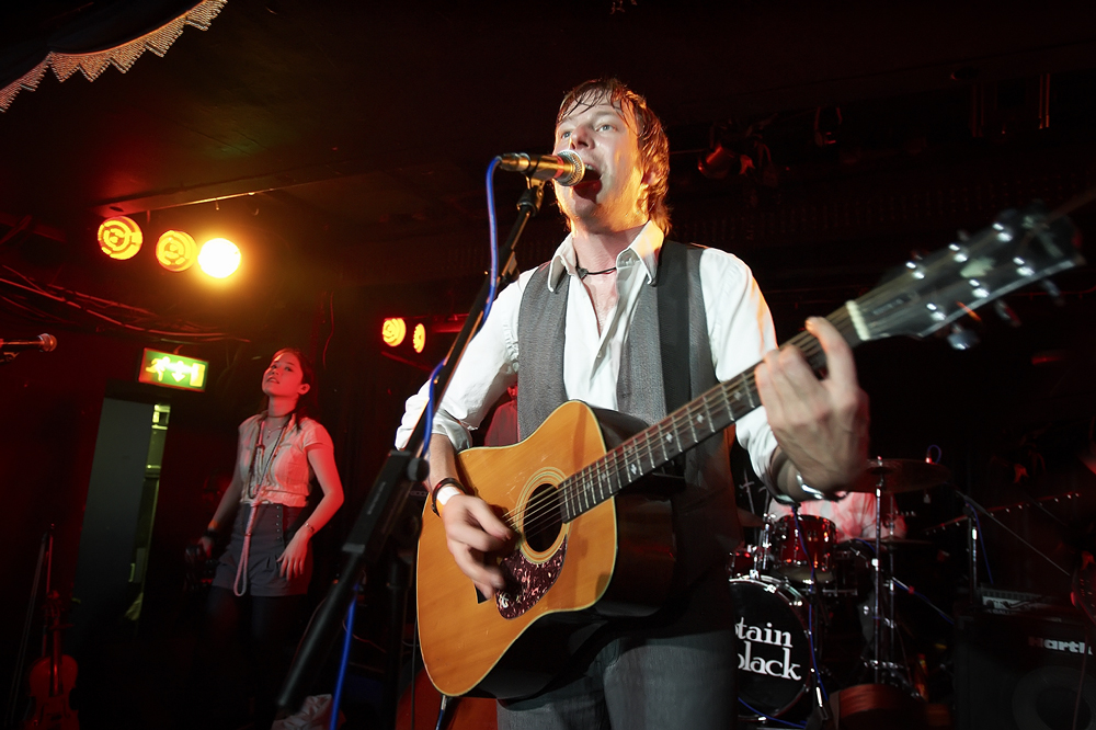 Picture of the band Outside Royalty from The Soho Review Bar, Soho, London, UK.